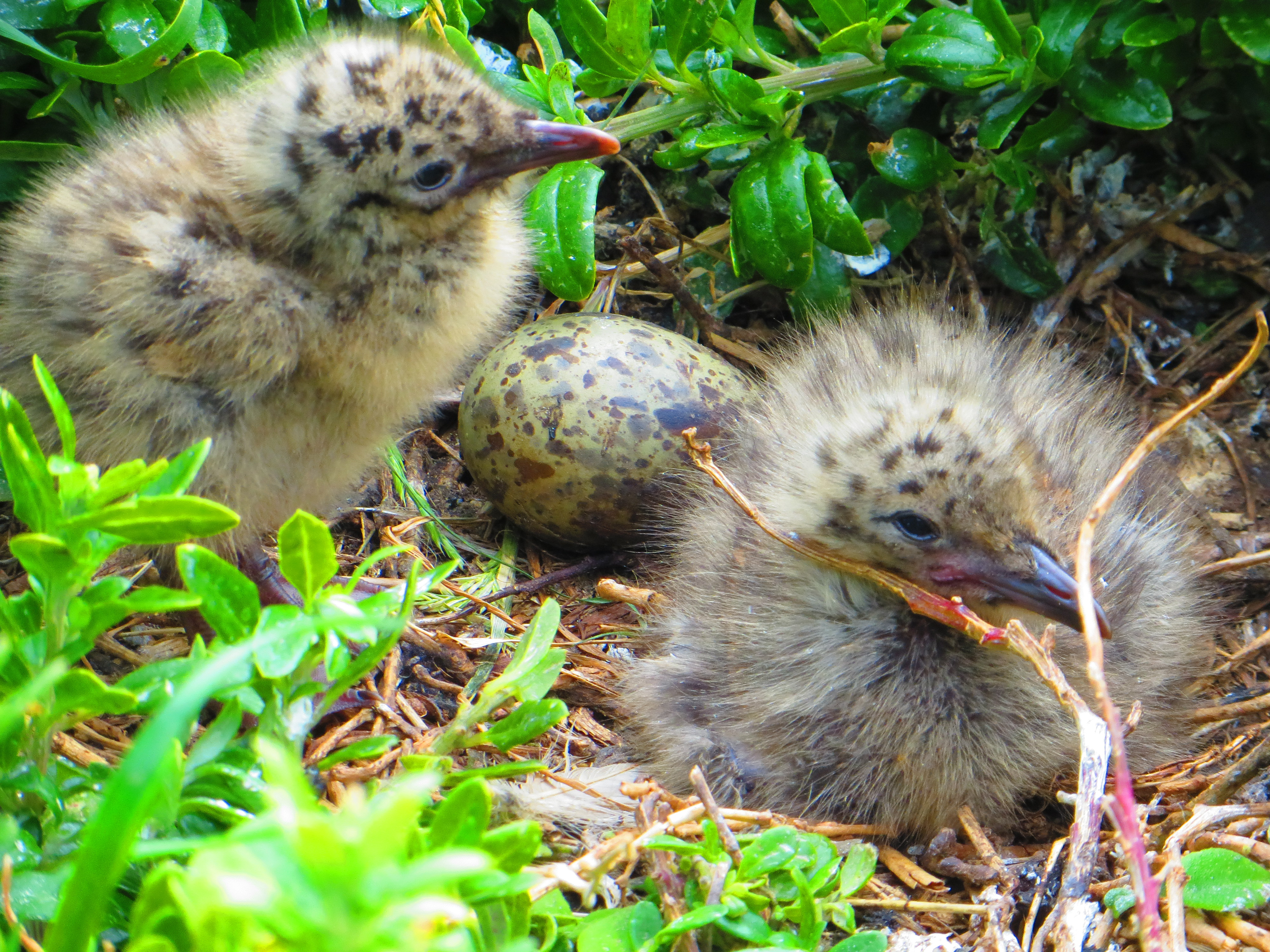 Silver gull (Chroicocephalus novaehollandiae) nestlings at Phillip Island Nature Park, Phillip Island, Victoria